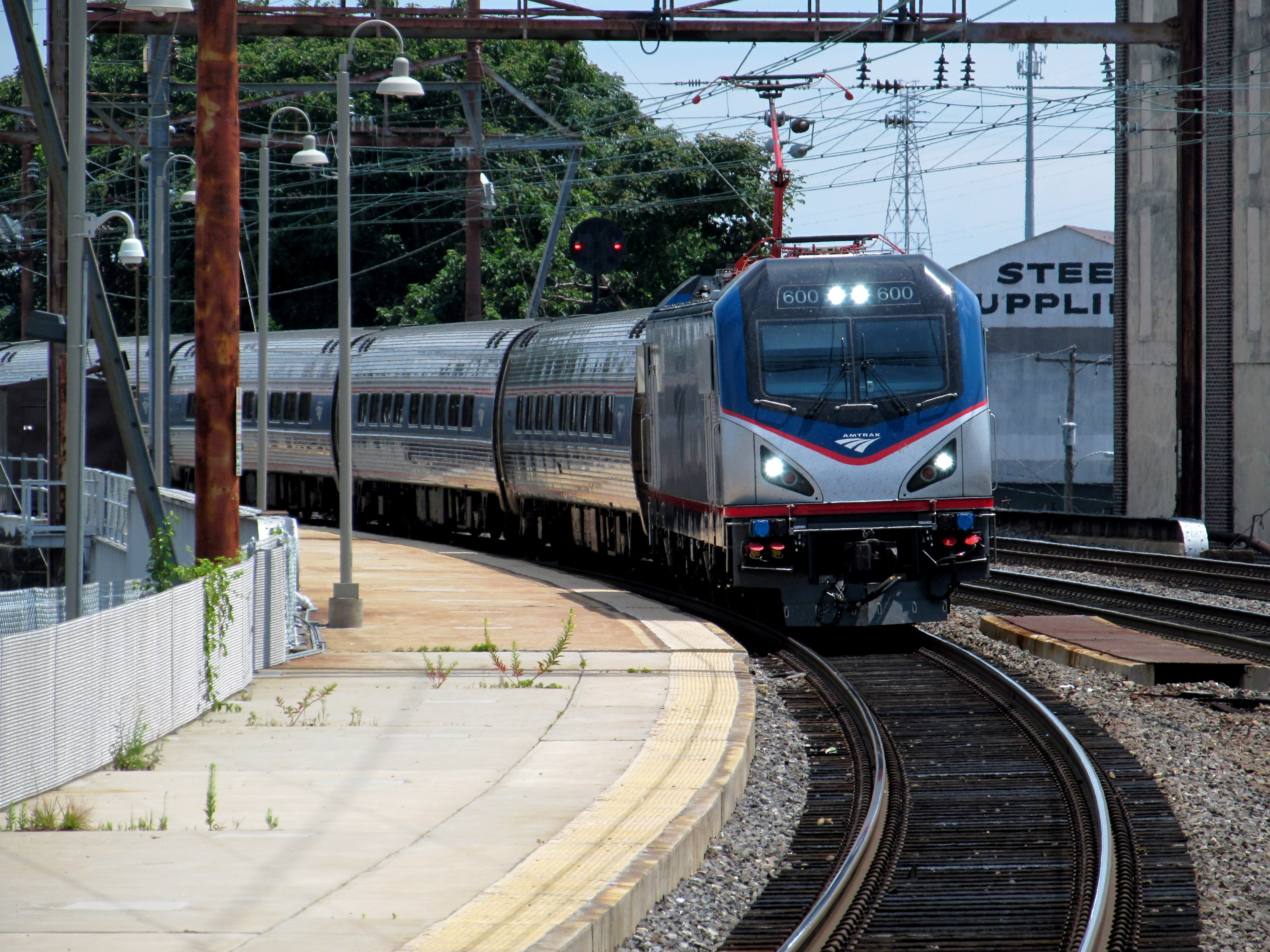 ACS-64 #600 leads a southbound Silver Star into Wilmington station in July 2014